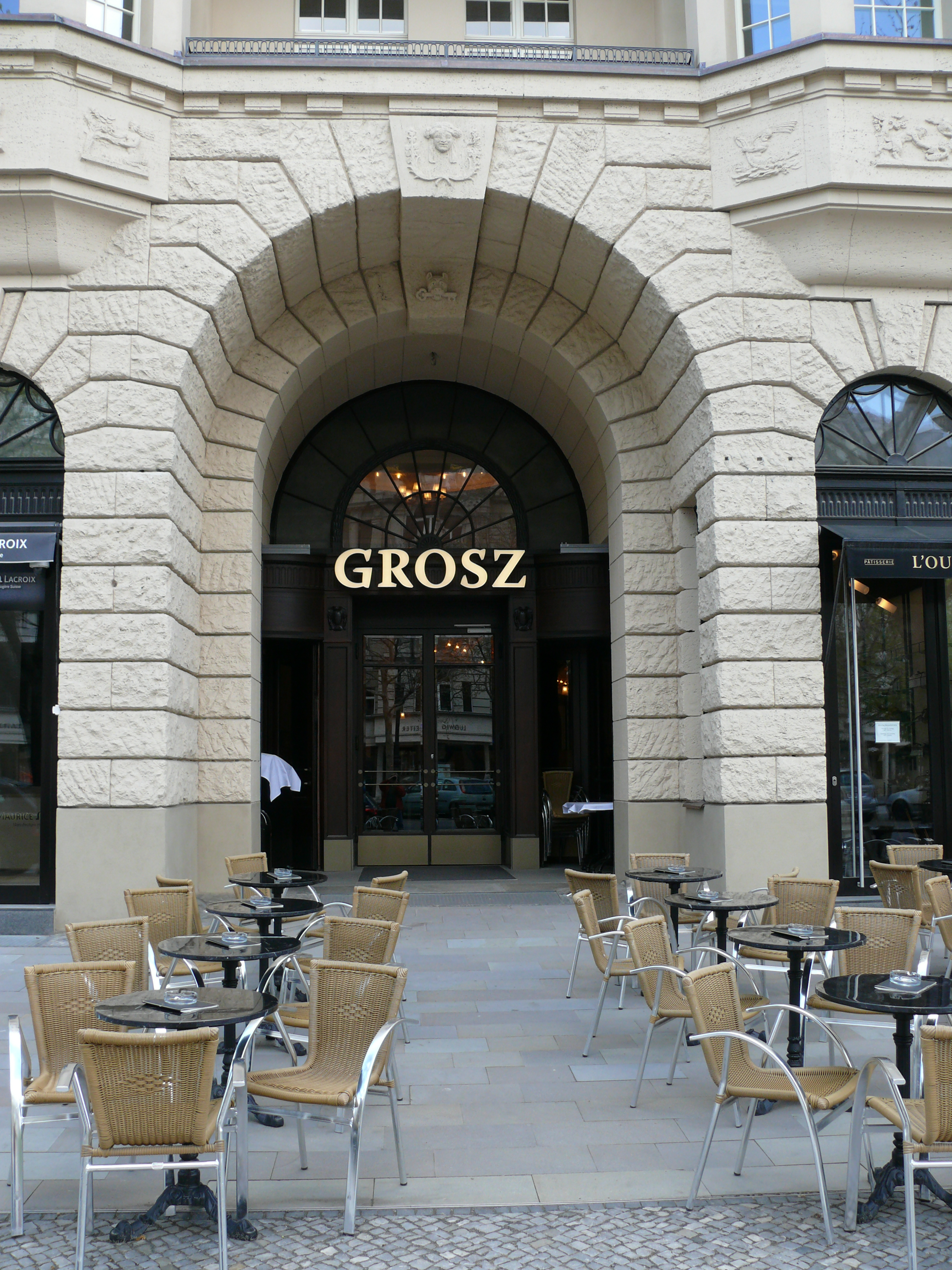 Berlin-Charlottenburg Haus Cumberland Cafe Grosz